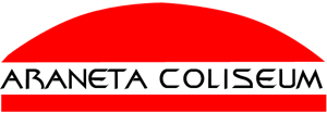 Current logo of the Araneta Coliseum. (Source: logo from it's official website, enhanced using Adobe Photoshop CS4)